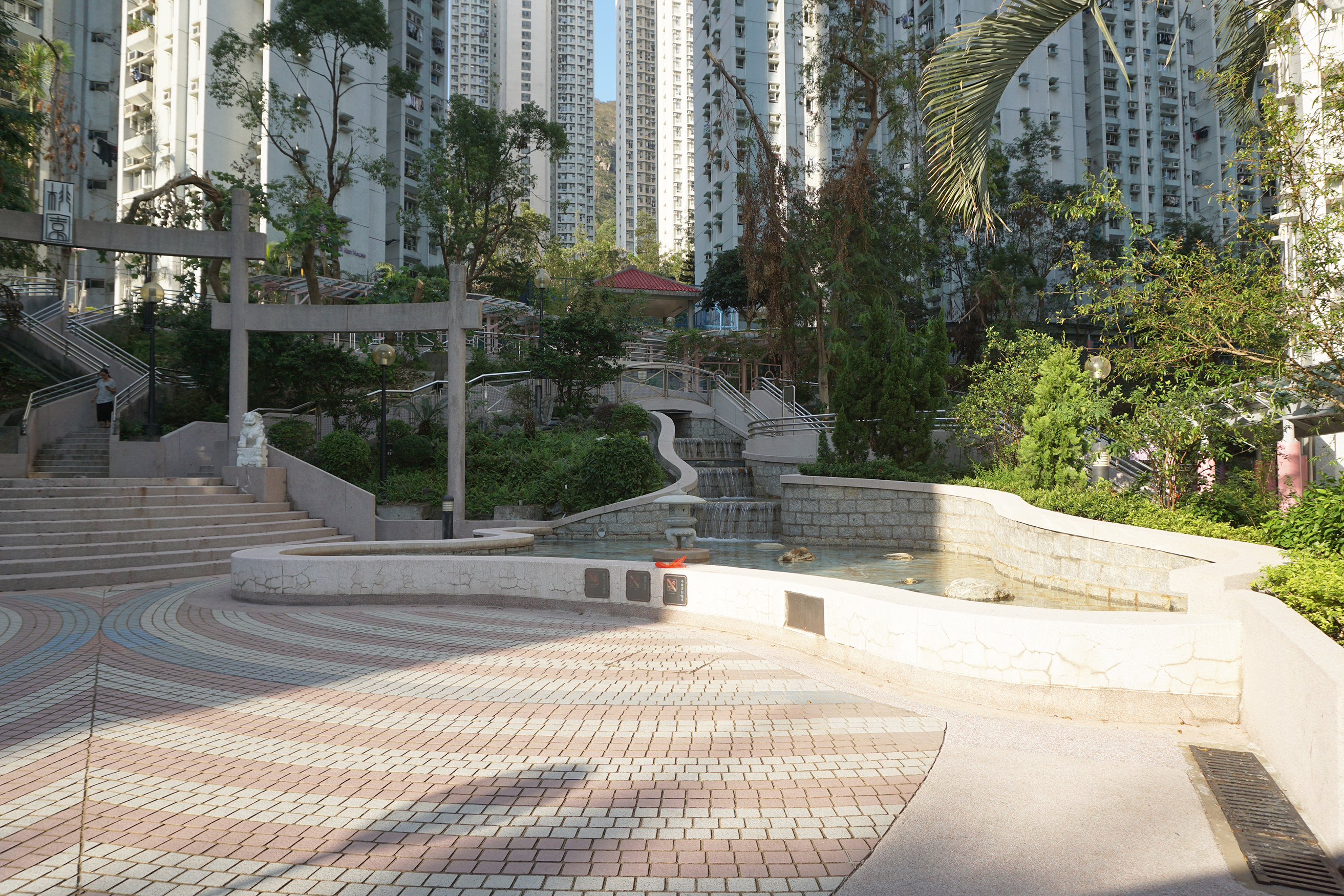 Tsz Oi Court in Tsz Wan Shan, Hong Kong.